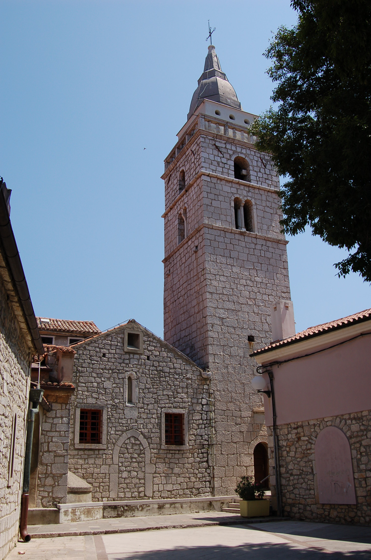 Assumption of the Blessed Virgin Mary parish church of Omišalj, island of Krk, Croatia